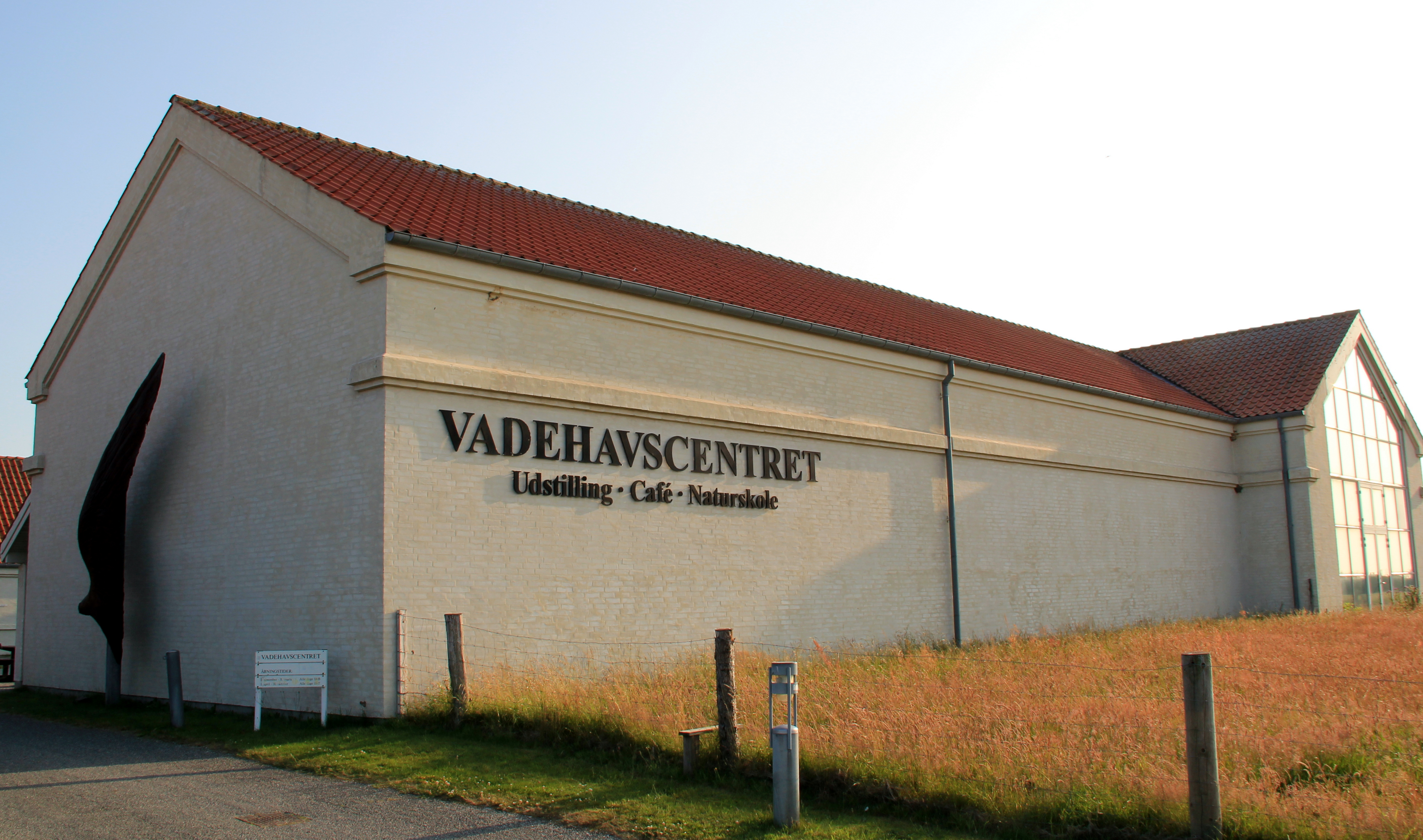 Vadehavscenteret at Mandø